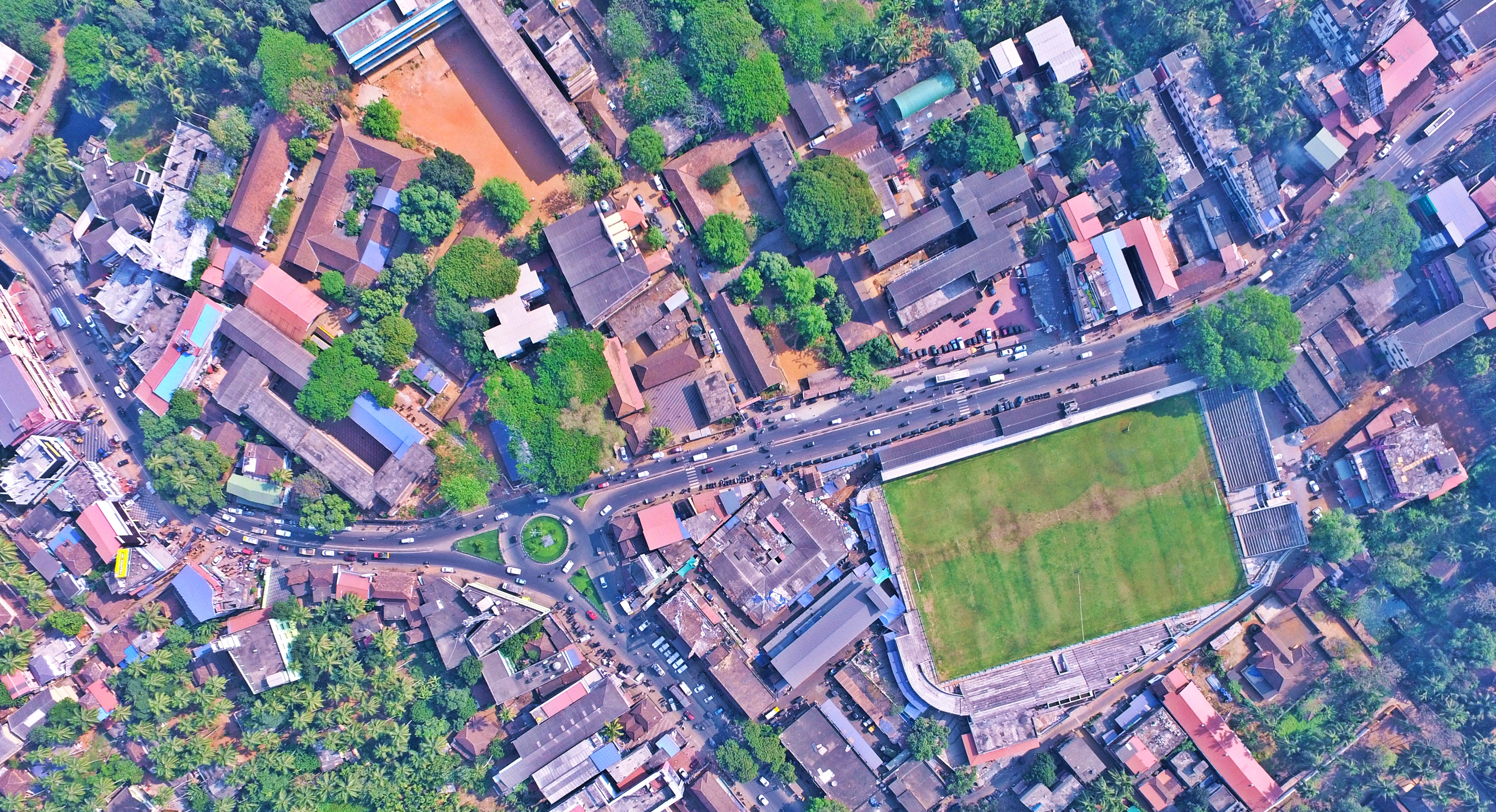 An Aerial shot of DownHill, Malappuram. Its the commercial area of Malappuram City or Central Business District Taken in 2016